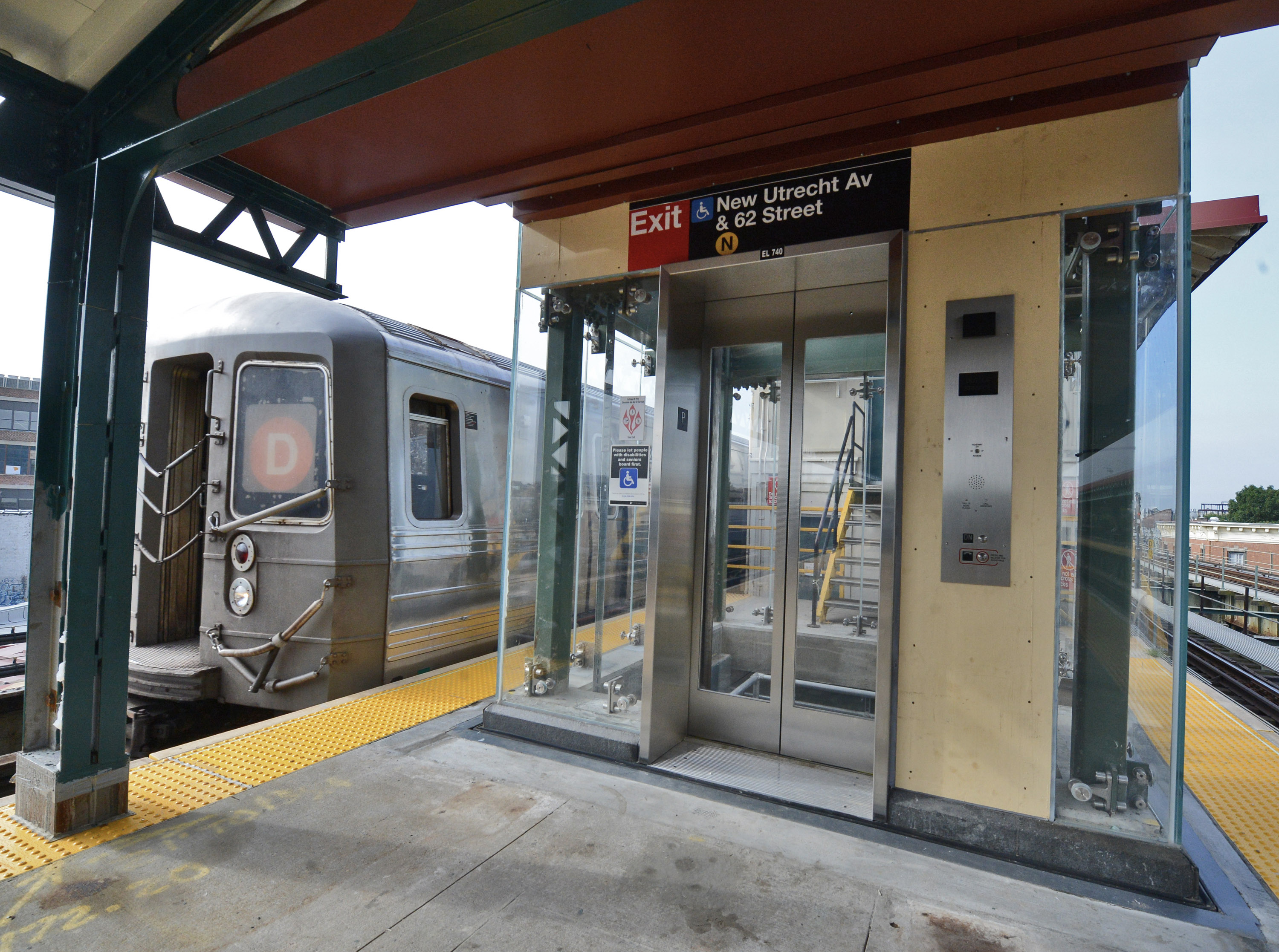 The Metropolitan Transportation Authority (MTA) put four new elevators at the New Utrecht Av/62 St (D,N) station complex into service on Friday, July 19, 2019. The station underwent a major rehabilitation that included ADA enhancements such as braille signage, tactile platform edge strips, an ADA boarding area, wheelchair-friendly booth adjustments and powered exit gates to ease mobility and provide more transit options for thousands of customers in southern Brooklyn. MTA New York City Transit President Andy Byford and Alex Elegudin, Transit's senior adviser for systemwide accessibility, visited the station on Friday to try out the elevators, admire the new construction and thank employees for their work. Photo: Marc A. Hermann / MTA New York City Transit